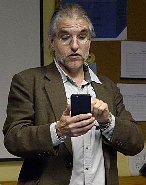 Listen With Your Eyes! Photography workshops with John Stanmeyer Celebrated U.S. photographer John Stanmeyer, recipient of numerous awards, and whose work has graced the covers of National Geographic and TIME Magazine, gave a series of workshops to Jewish and Arab youth. High school students from Beit Shemesh, and Access Program students from Baqa ElGharbiyeh, Kseifeh, Tel Sheva, Ramleh and Um Batin learned how to use photography, not only as a form of self-expression, but also as a means of talking about one's own identity. Stanmeyer's workshops are the first stage of a U.S. Embassy-initiated project, which exposes students to accessible smartphone photography as a tool for creating real change in their communities.